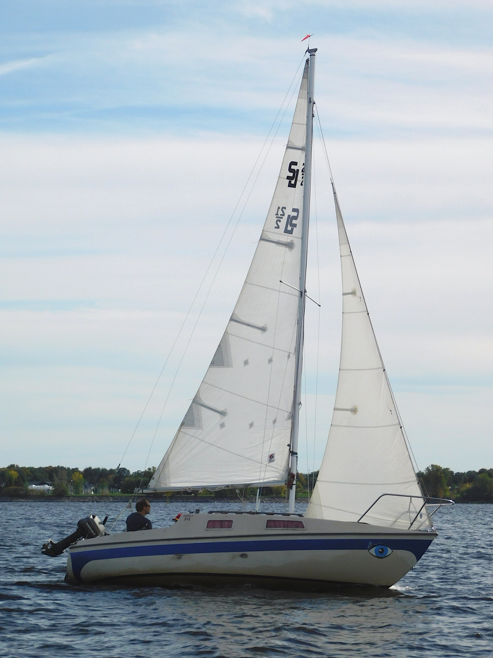 A San Juan 21 sailboat named Iris.